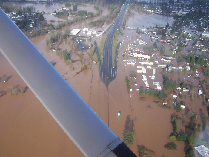 Interstate 5 flooded in Chehalis, Washington on December 5, 2007. Photo taken by TheRitters, as found at . photos from the Northwest Washington flood of 2007. These are specifically of Chehalis and Centralia